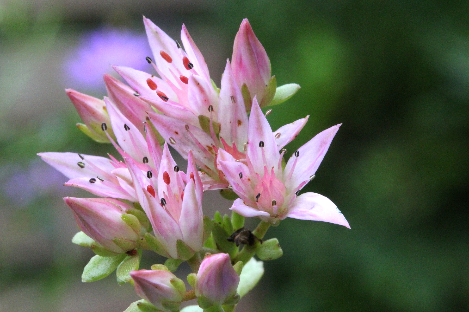 picture taken in private garden